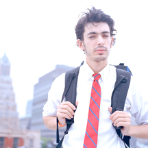 Photo by Marci LeBrun. Brooklyn 2004.